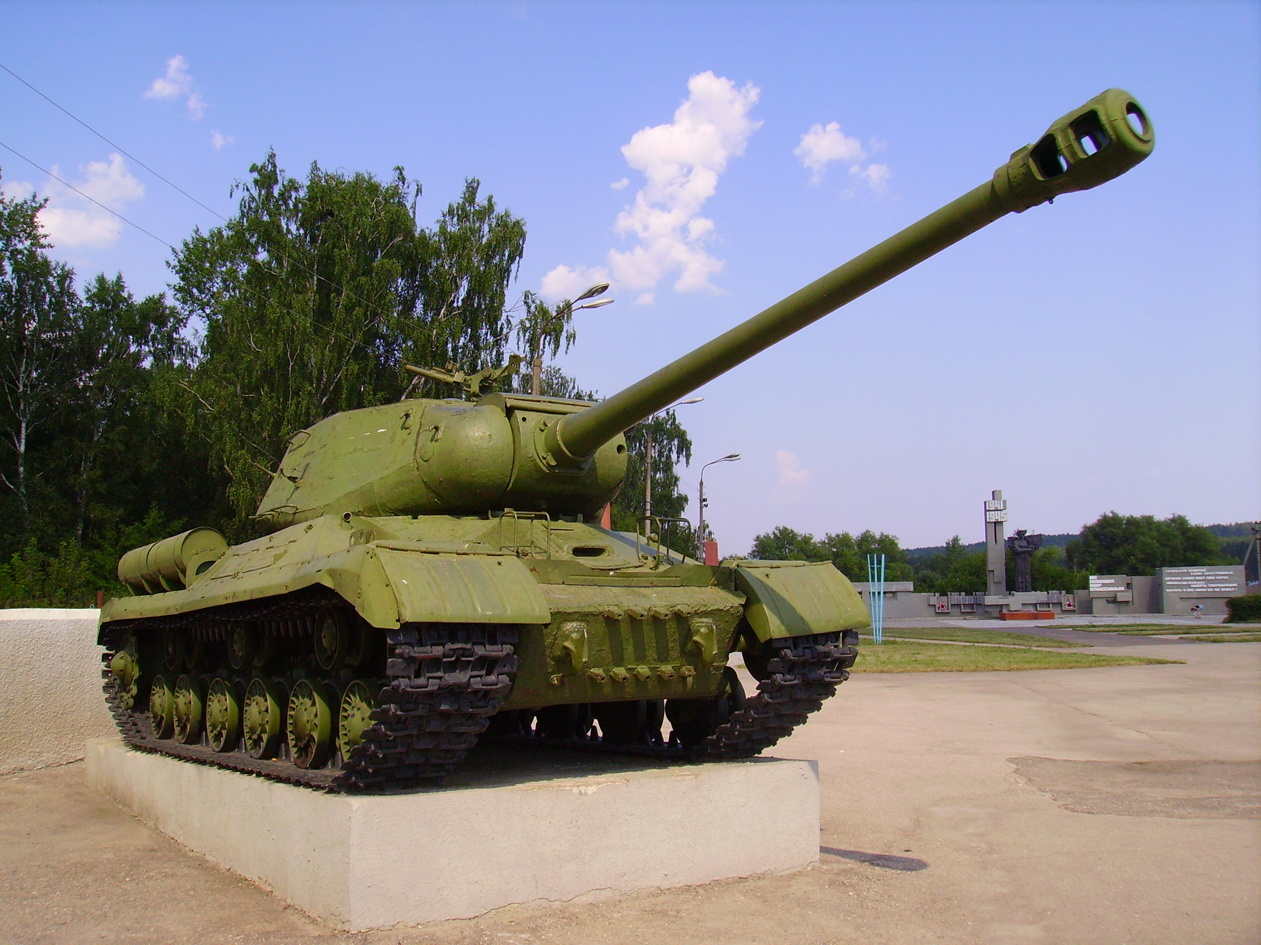 IS-2 tank like a Monument at Great Patriotic War Memorial in Shatki (Nizhny Novgorod Oblast, Russia)